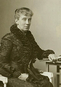 Composer Nanna Liebmann (1849-1935)